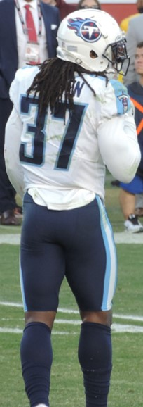 Johnathan Cyprien with Titans in 2017